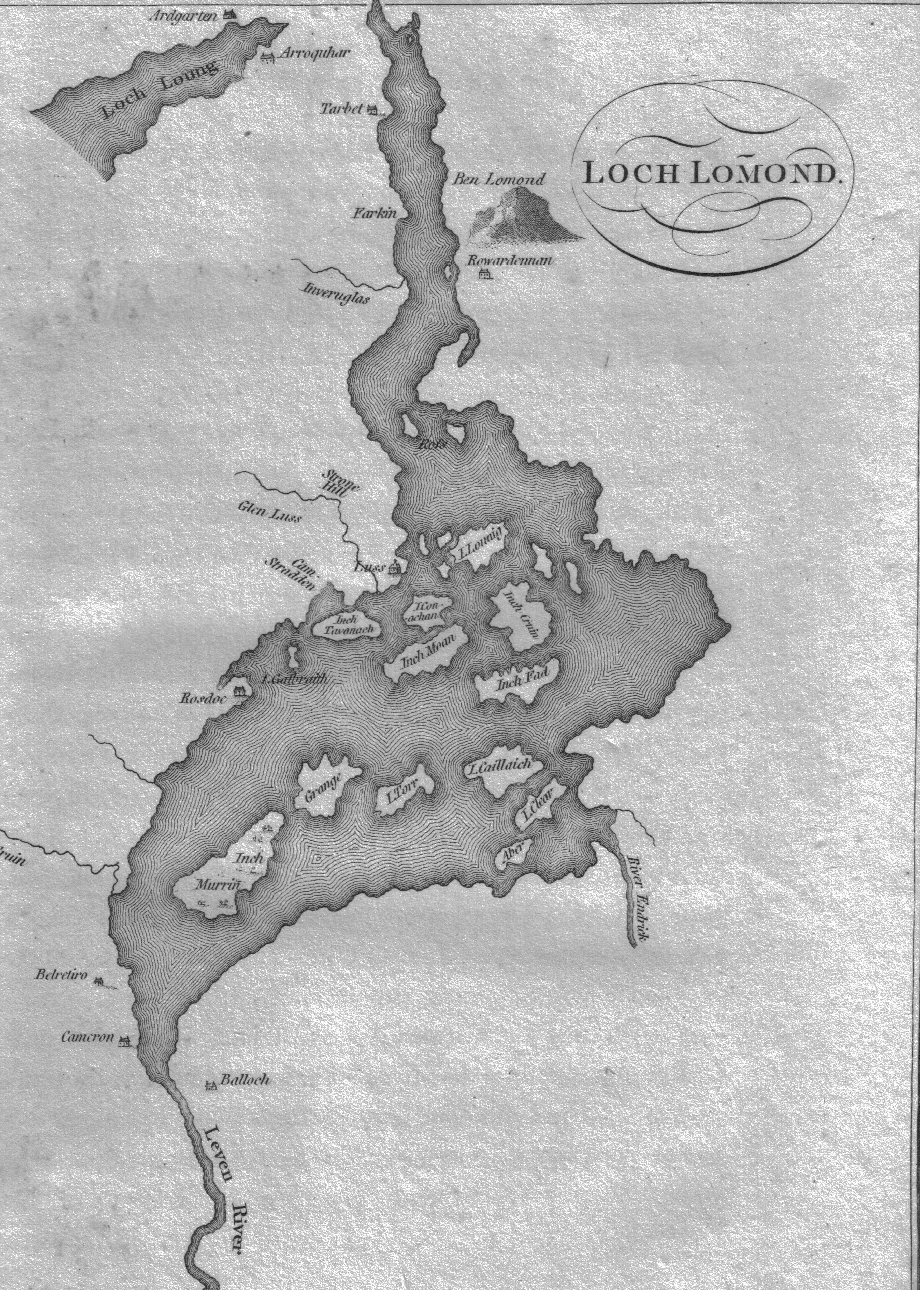 A map of Loch Lomond showing the islands and rivers. Circa 1800. Scotland.